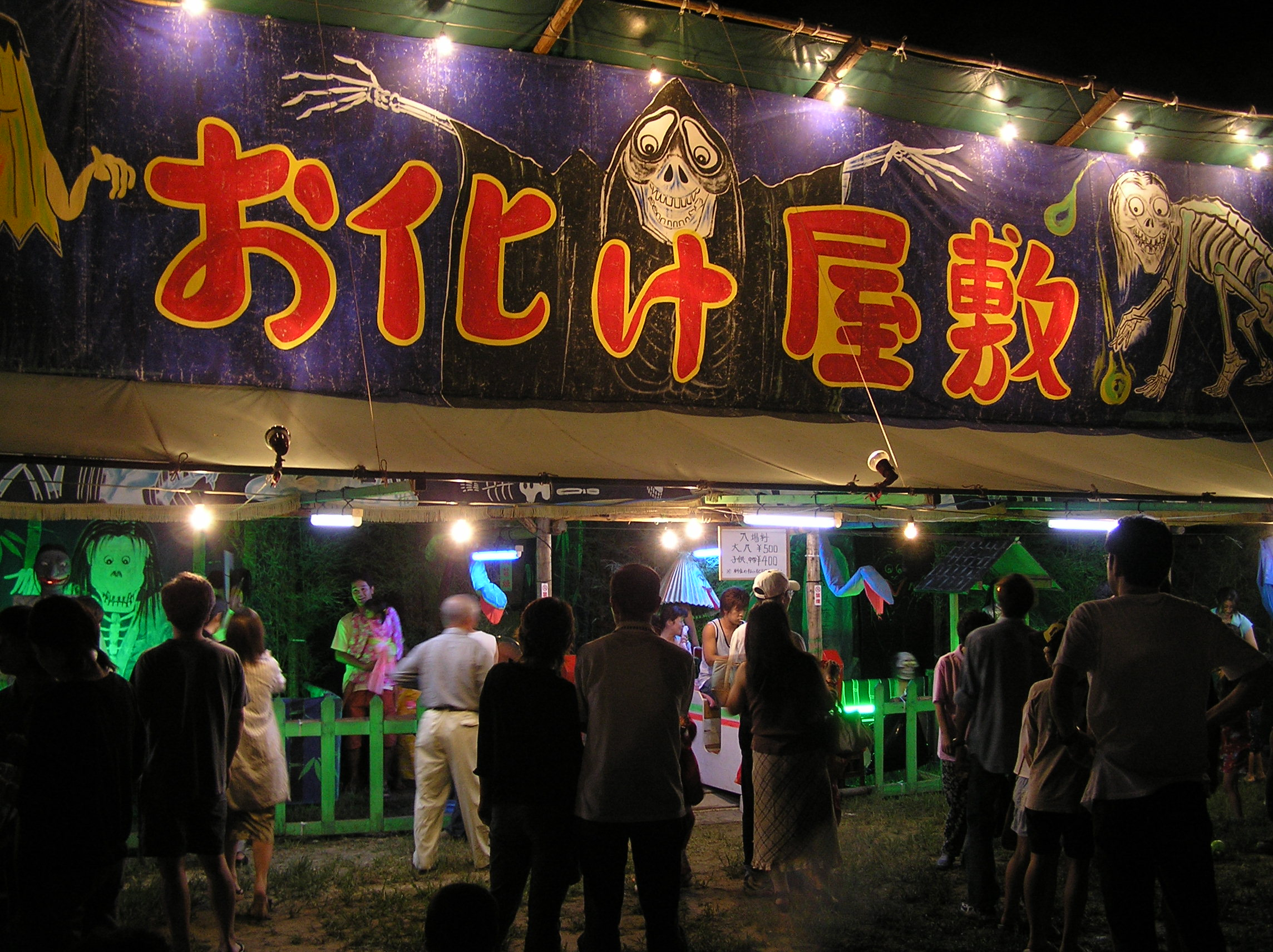 Haunted House Festival Dekansho